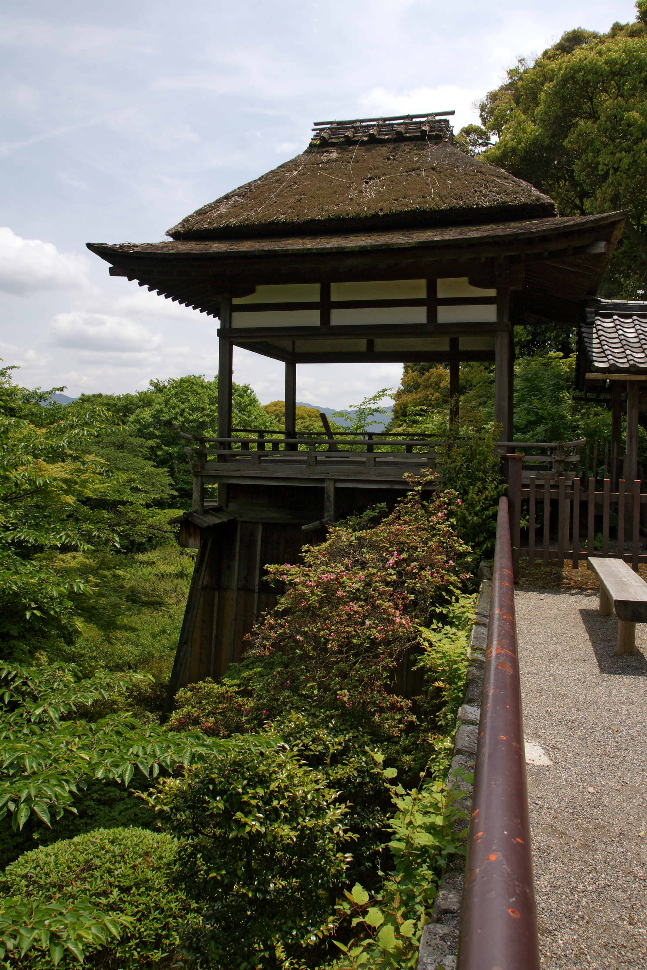 Ishiyama-dera in Otsu, Shiga prefecture, Japan